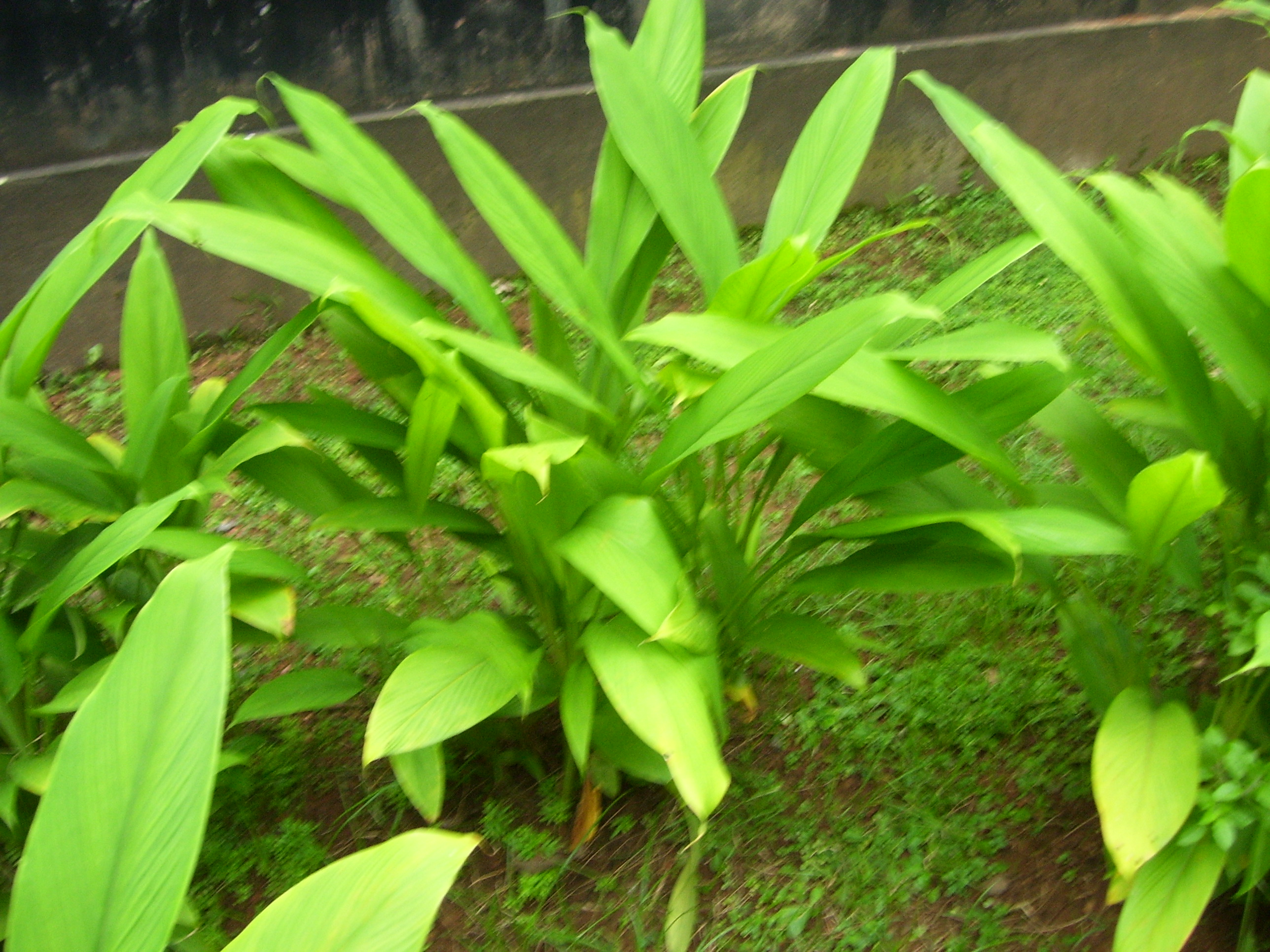 Turmeric plant found in Dakshina Kannada district of India.